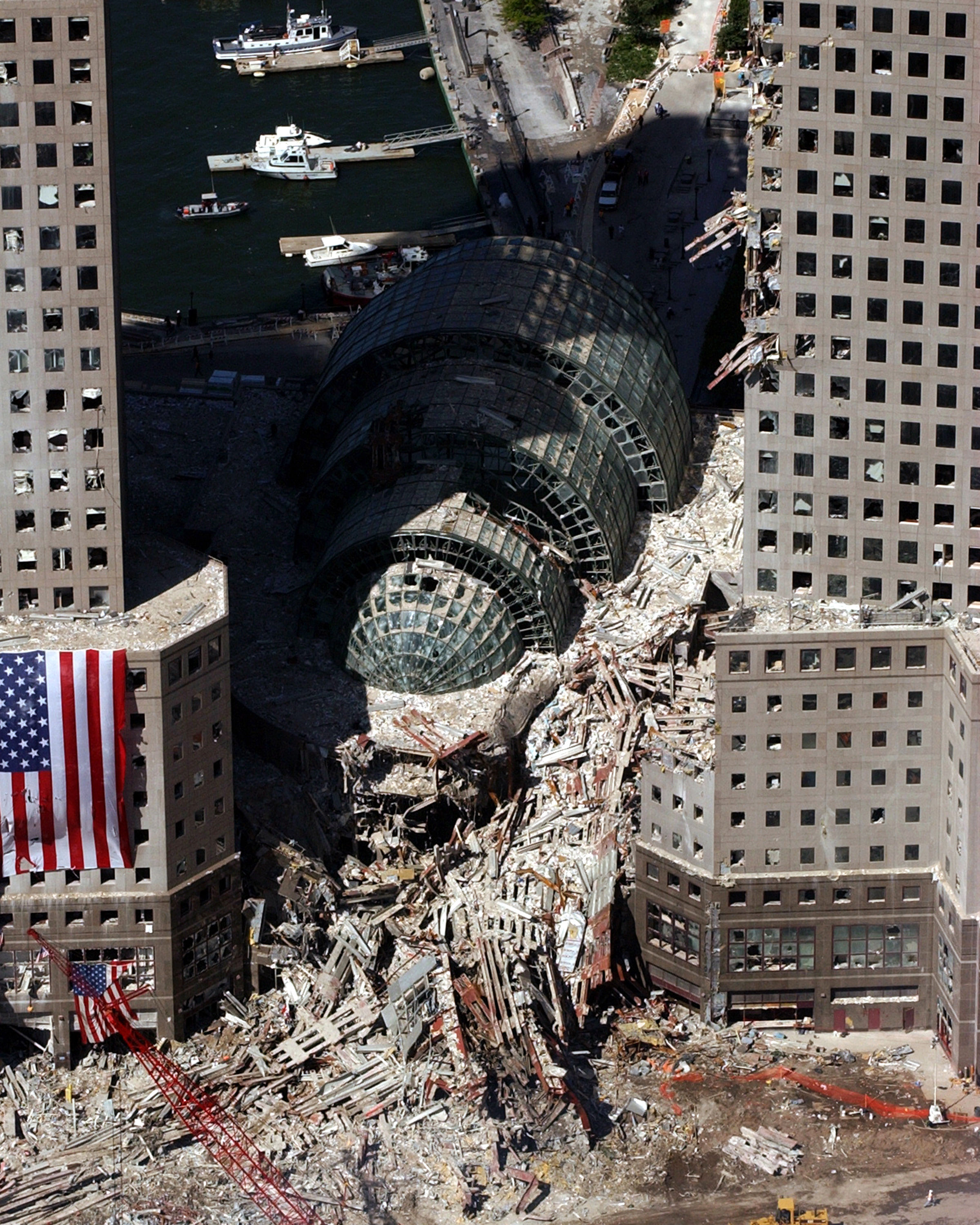 Ground Zero, New York City, N.Y. (Sept. 17, 2001) -- An aerial view shows only a small portion of the crime scene where the World Trade Center collapsed following the Sept. 11 terrorist attack. Surrounding buildings were heavily damaged by the debris and massive force of the falling twin towers. Clean-up efforts continued for months.